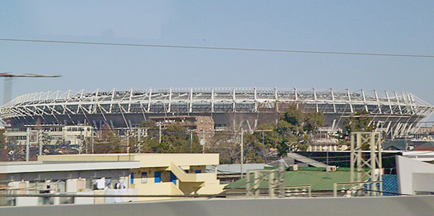 Ajinomoto Stadium in Chofu, Tokyo, Japan is the home of the F. C. Tokyo and Tokyo Verdy 1969 soccer teams.